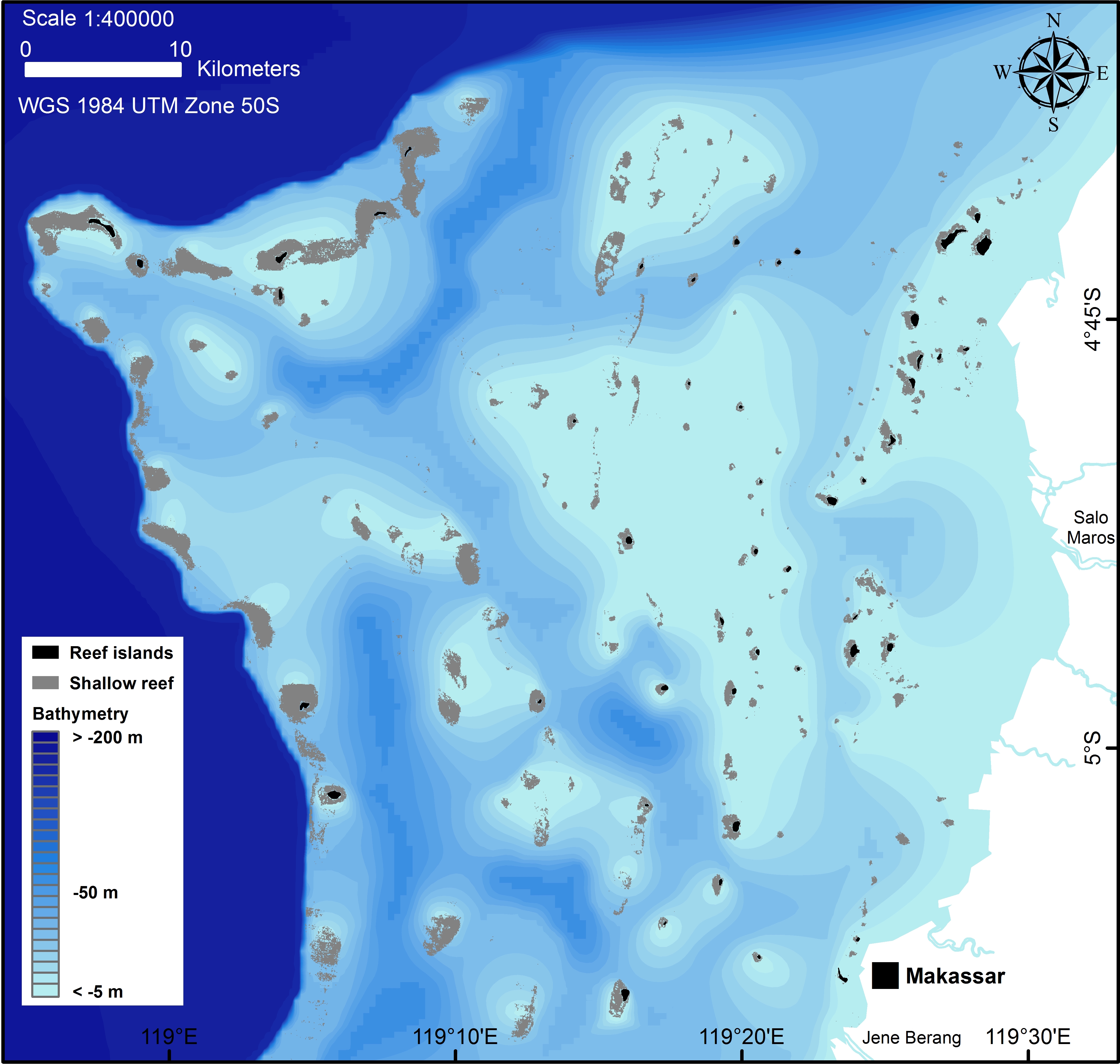 Bathymetric map of the Spermonde Archipelago showing all named islands and larger reef structures. At the shelf break, the water depth increases to about 200 m.